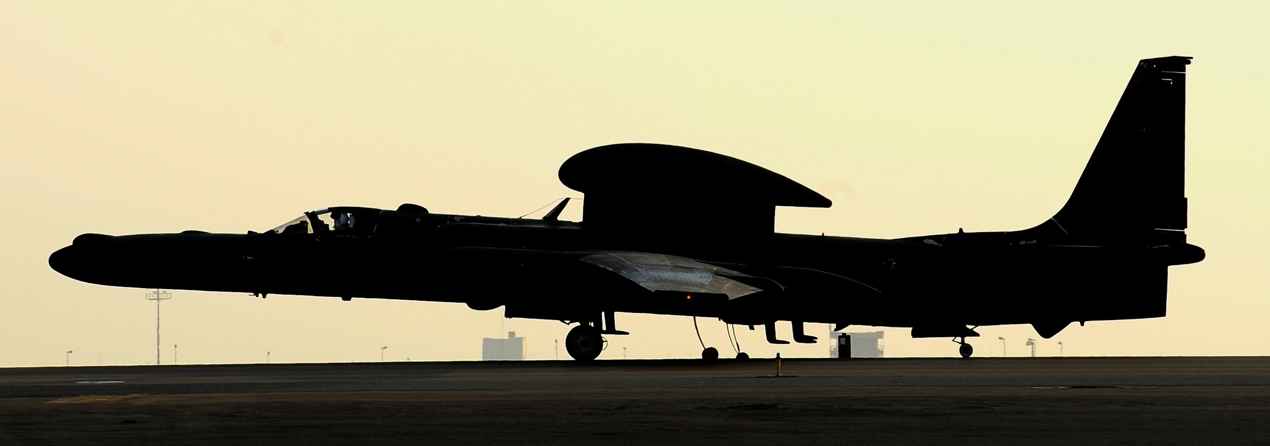 A Lockheed U-2S taxies after lands at Al Dhafra Air Base, United Arab Emirates